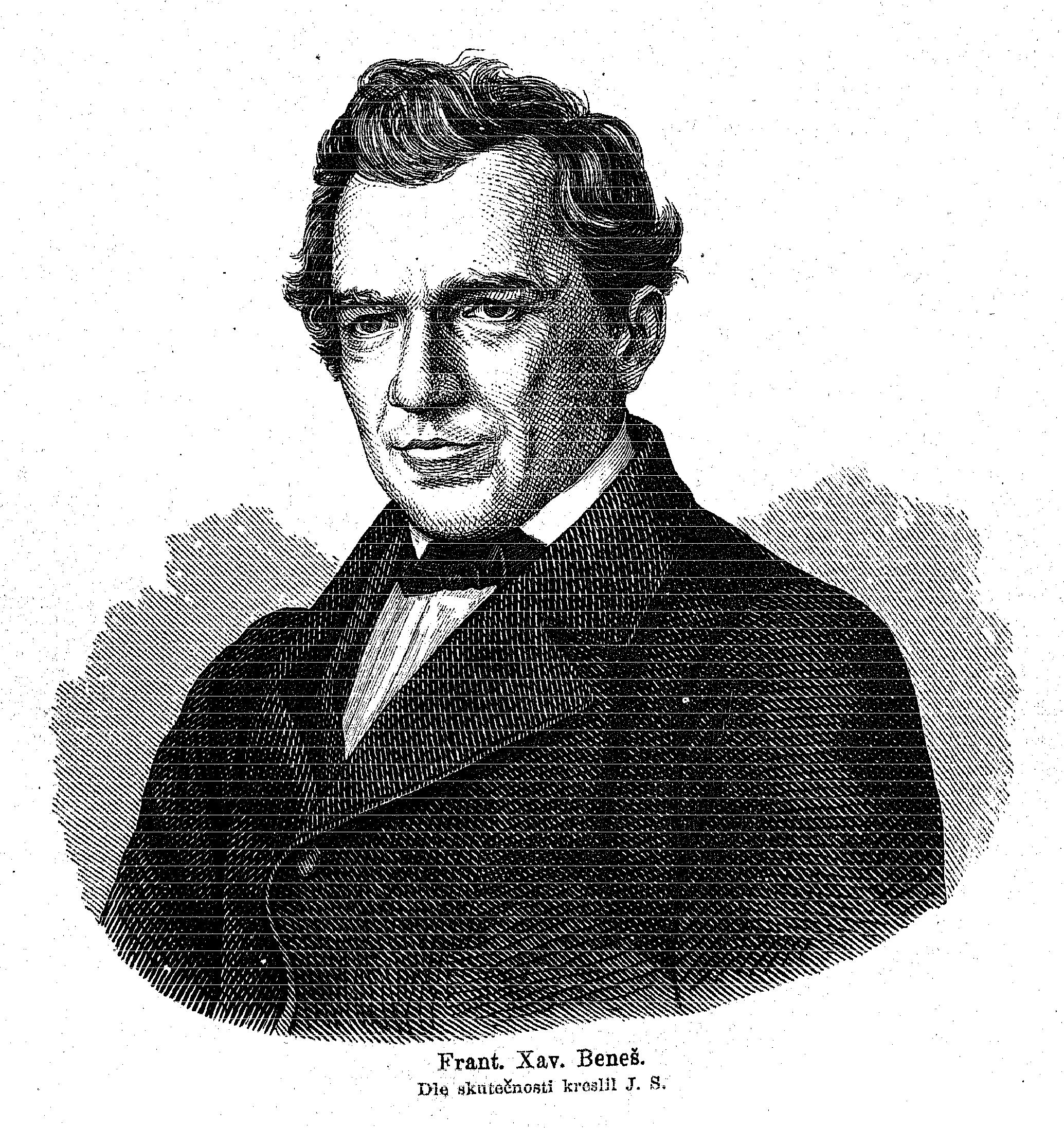 Portrait of František Xaver Josef Beneš (1819 - 1888) - Czech archaeologist